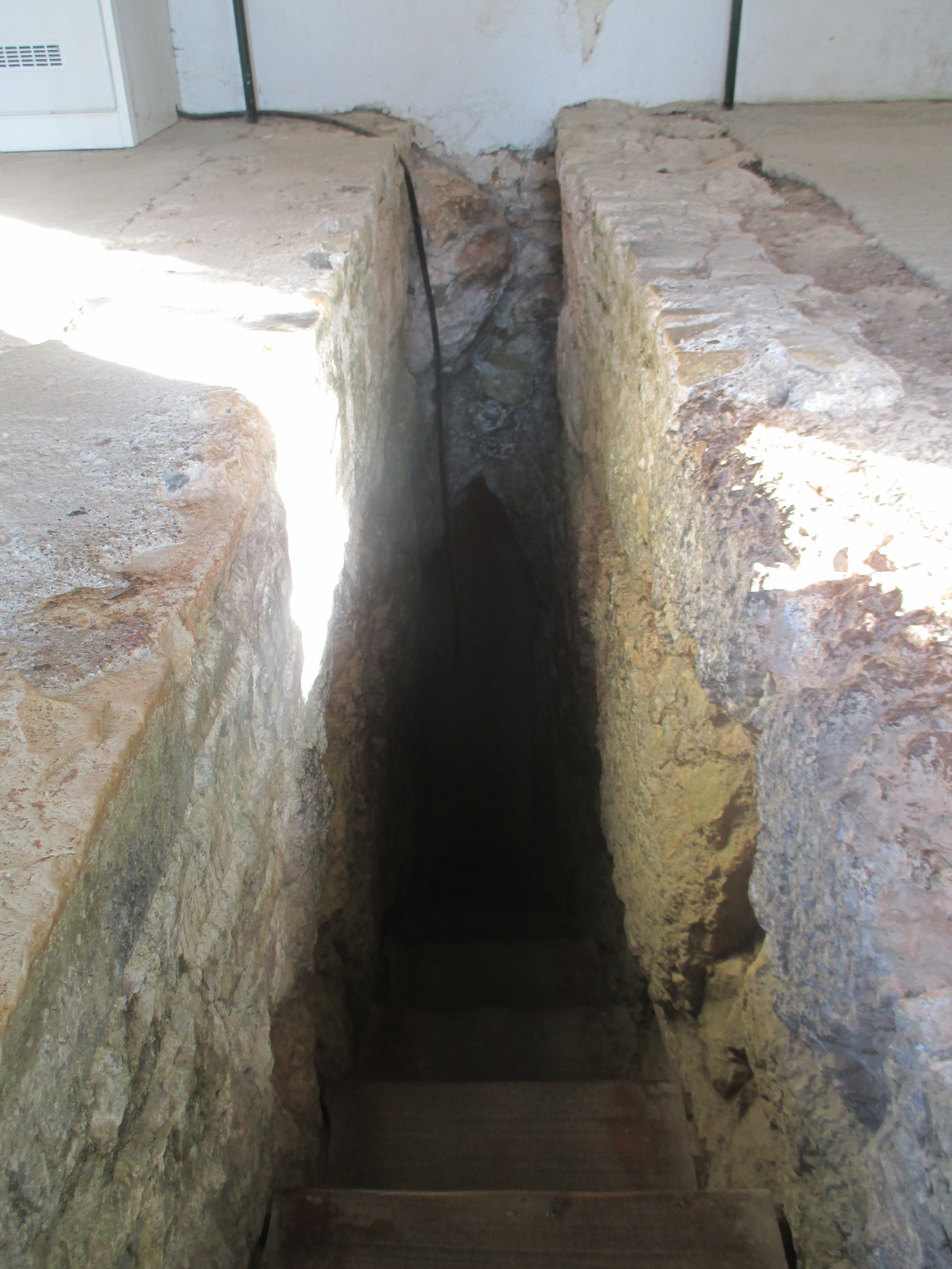 Tunnel of Eupalinos (Eupalinian tunnel), Pythagoreio, Samos, Greece.